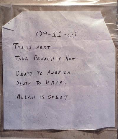 copy of "amerithrax" letter